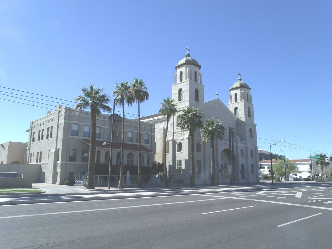 The Immaculate Heart of Mary Catholic Church, built in 1928, is Phoenix’s oldest Hispanic church. It is located at 909 E. Washington St. Phoenix, Az.. It was listed in the National Register of Historic Places on October 8, 1993, ref. number 93000742. Designated as a landmark with Historic Preservation-Landmark (HP-L) overlay zoning Historic Preservation Individually Designated Properties.